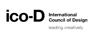 International Council of Design